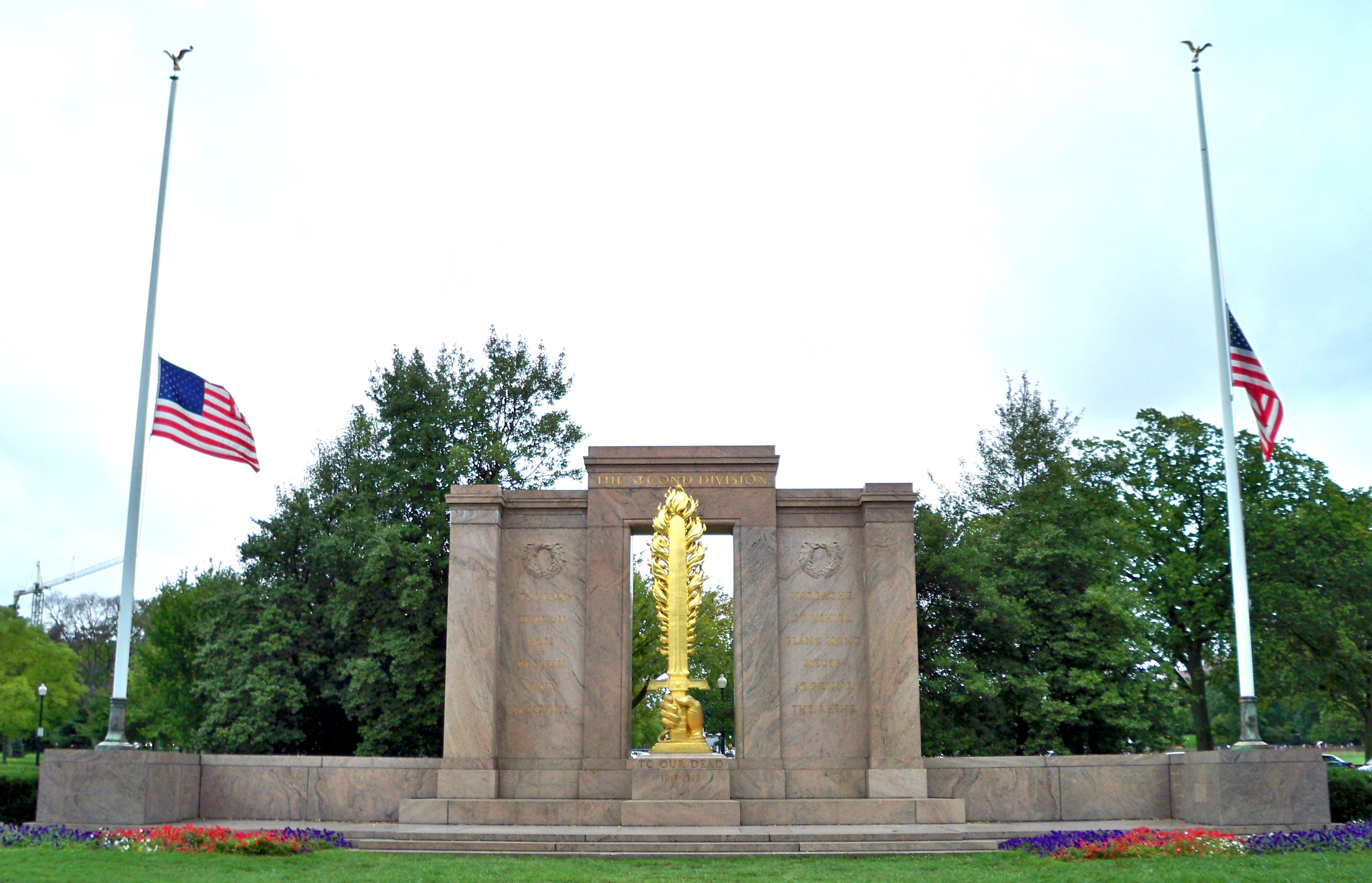 The Second Division Memorial on the Ellipse.